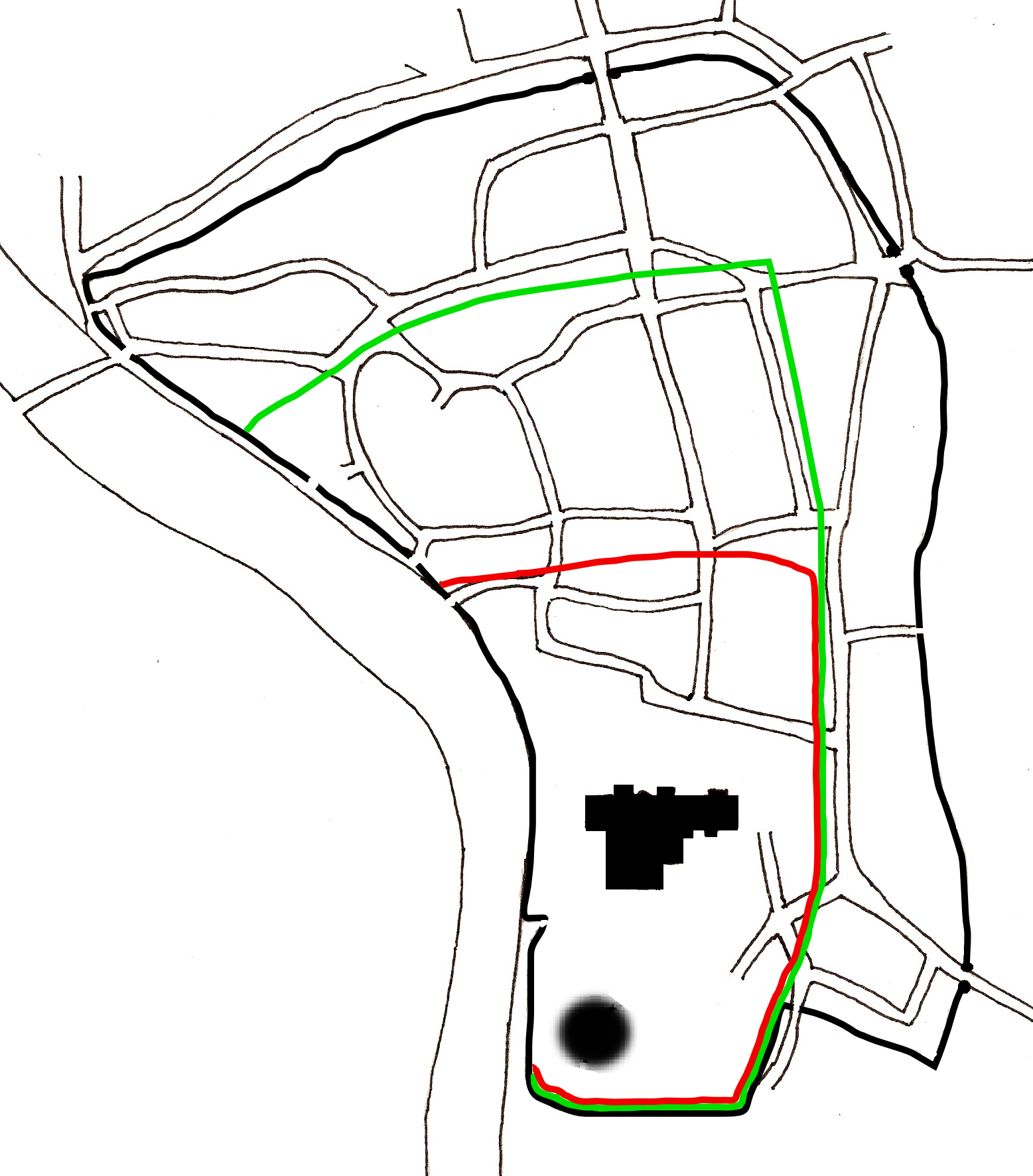 Comparison of Roman, Anglo-Saxon and Medieval city walls, after Baker, Nigel, Hal Dalwood, Richard Holt, Charles Mundy and Gary Taylor. (1992) "From Roman to medieval Worcester: development and planning in the Anglo-Saxon city," Antiquity Vol. 66, pp.65-74.